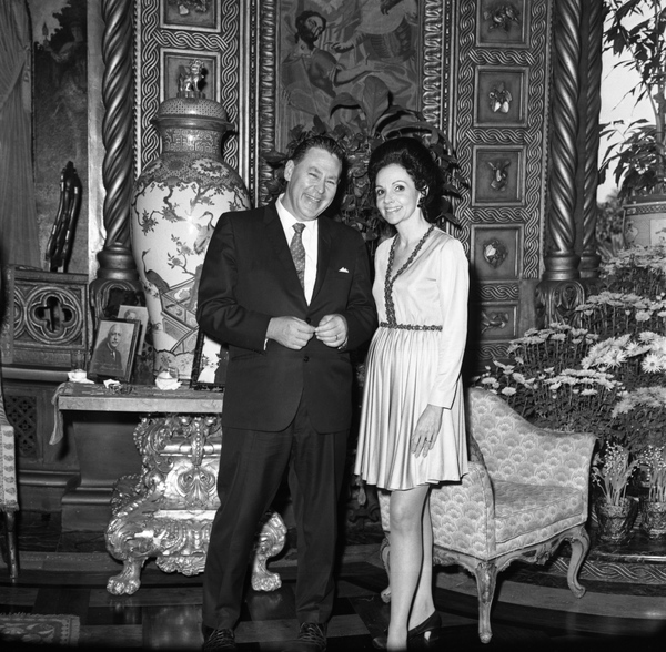 Orlando citrus magnate Duke Crittenden and Mrs. Paula Hawkins at the Republican Executive Committee meeting at "Mar-A-Lago".